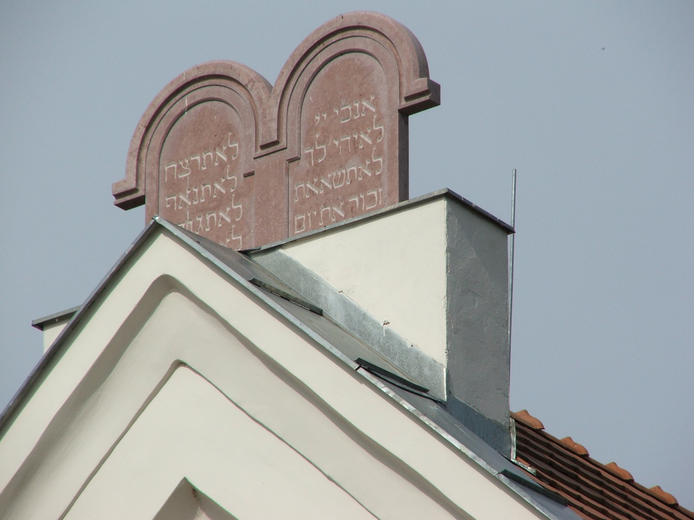 Synagoge in Heroes' Square Tata, Hungary Photo: József Süveg (2005)